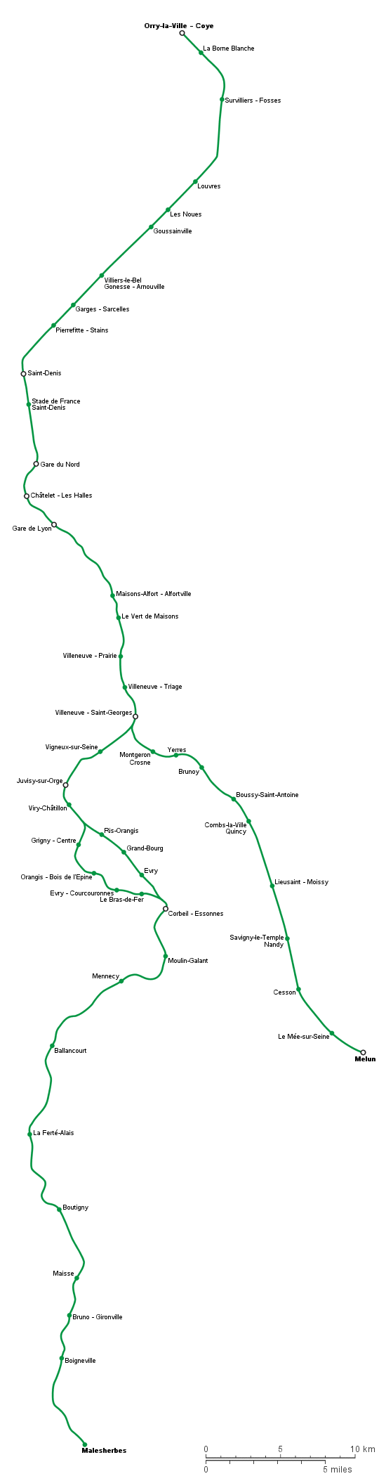 Geographically accurate path of the line D of Paris RER (made by Metropolitan).